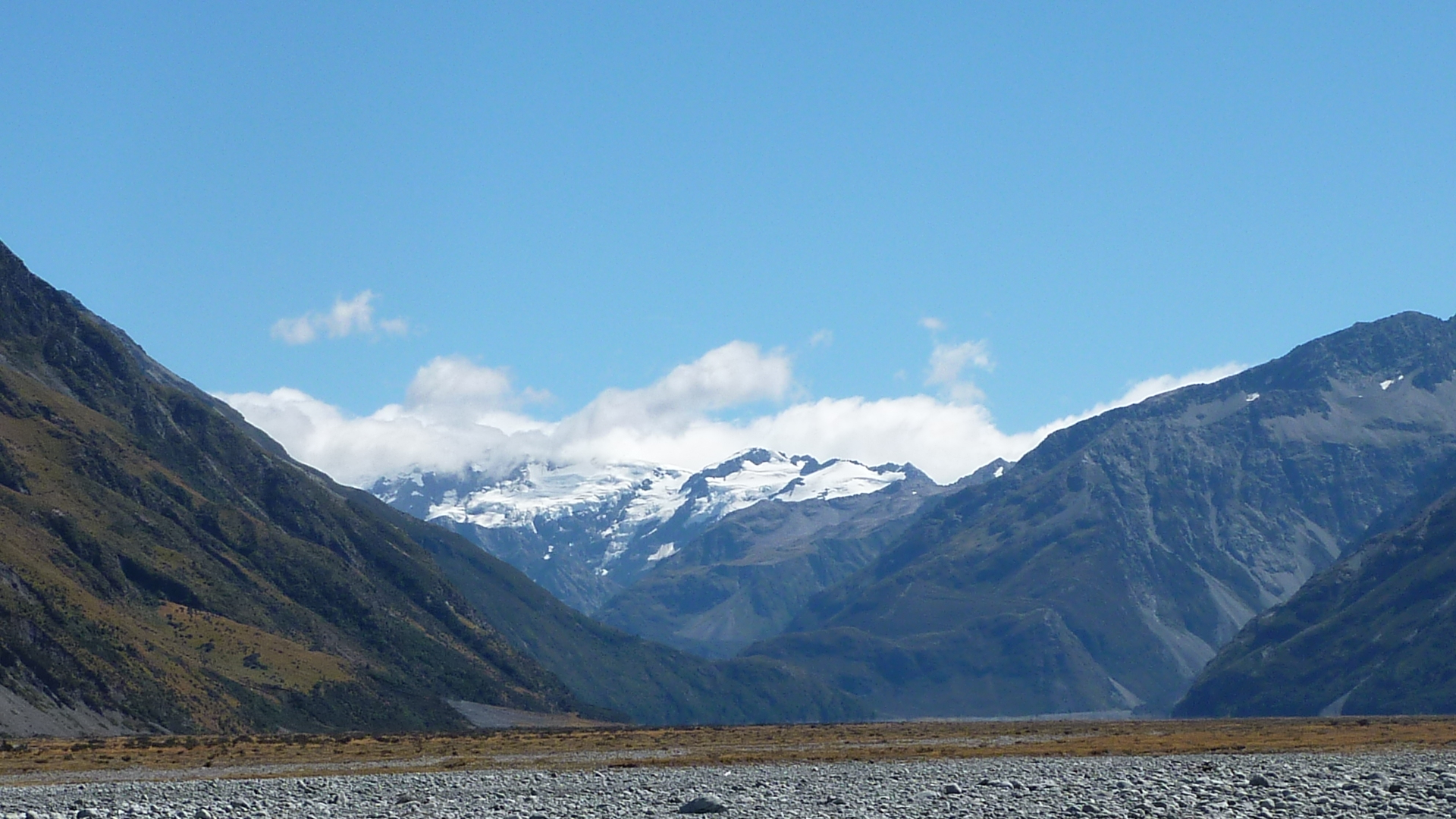 Clyde River looking towards Main Divide. The Clyde is a tributary of the Rangitata River.